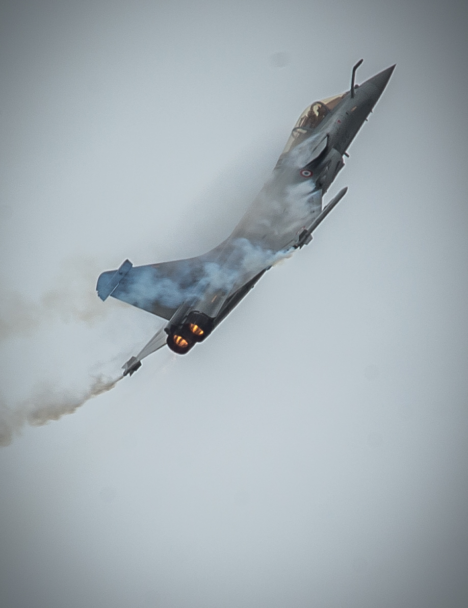 Dassault Rafale C code number 113-GC 150621-F-RN211-270 Paris Air Show 2015.